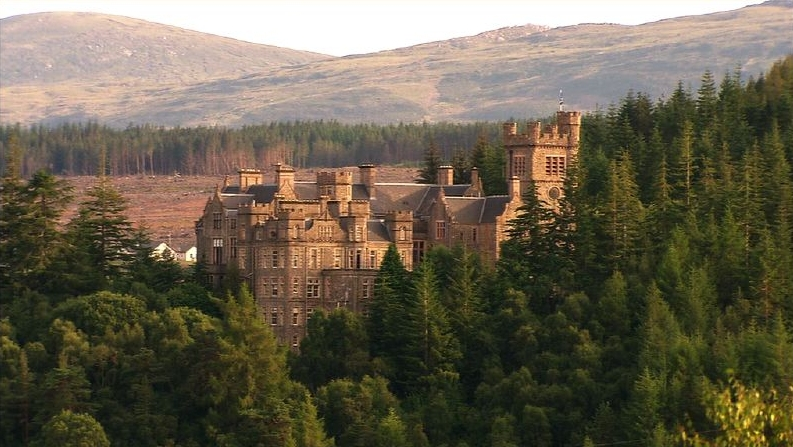 Carbisdale Castle in Scotland, Culrain, Scotland, UK